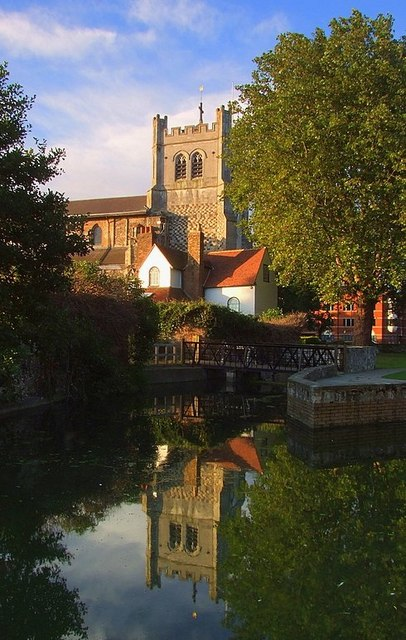 Photo of the Cornmill Stream at Waltham Abbey